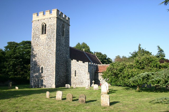 Church of All Saints in Barrow, Suffolk, England. A Grade I listed medieval church.